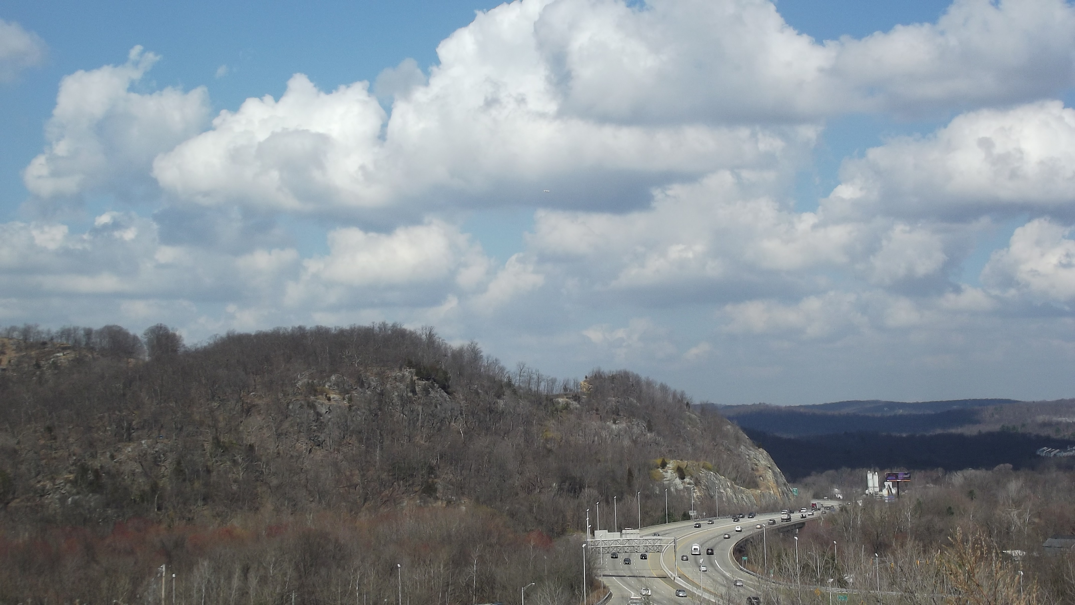 The purported site of the Pompton Mutiny on Federal Hill in Bloomingdale NJ from the nearby Walmart in Riverdale NJ.